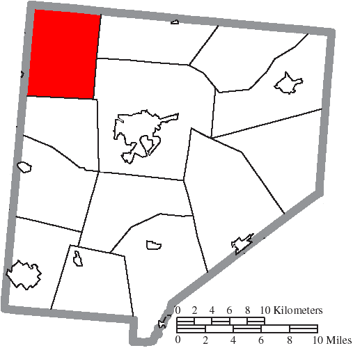 Map of the municipal and township boundaries of Clinton County, Ohio, United States, as of the 2000 census, with the location of Chester Township highlighted. Township borders are shown only in unincorporated areas in order to differentiate incorporated and unincorporated areas more clearly.